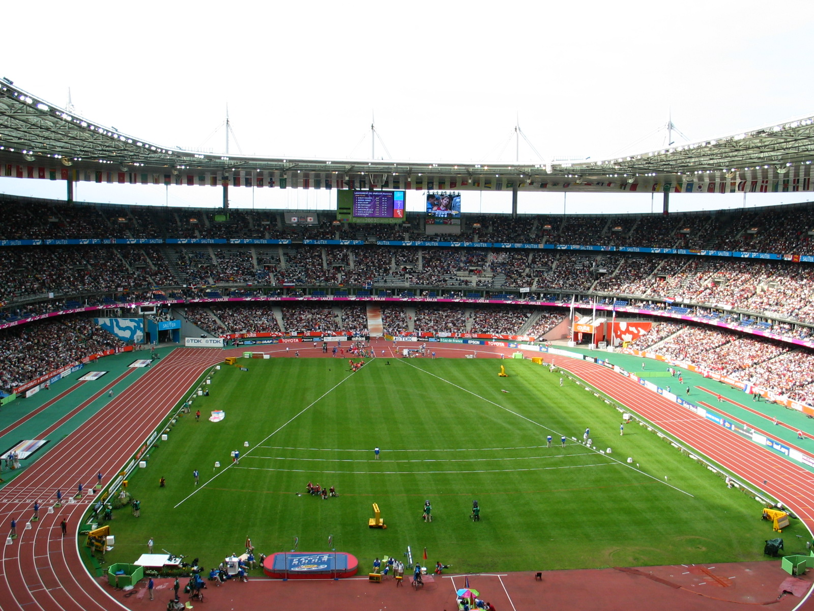 Stade de France during the IAAF World Championships 2003